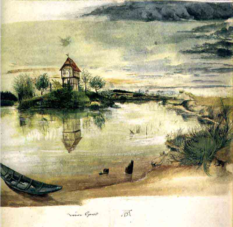 Lake near Nuremberg in direction Pegnitz, inscription: «Weier Haws»